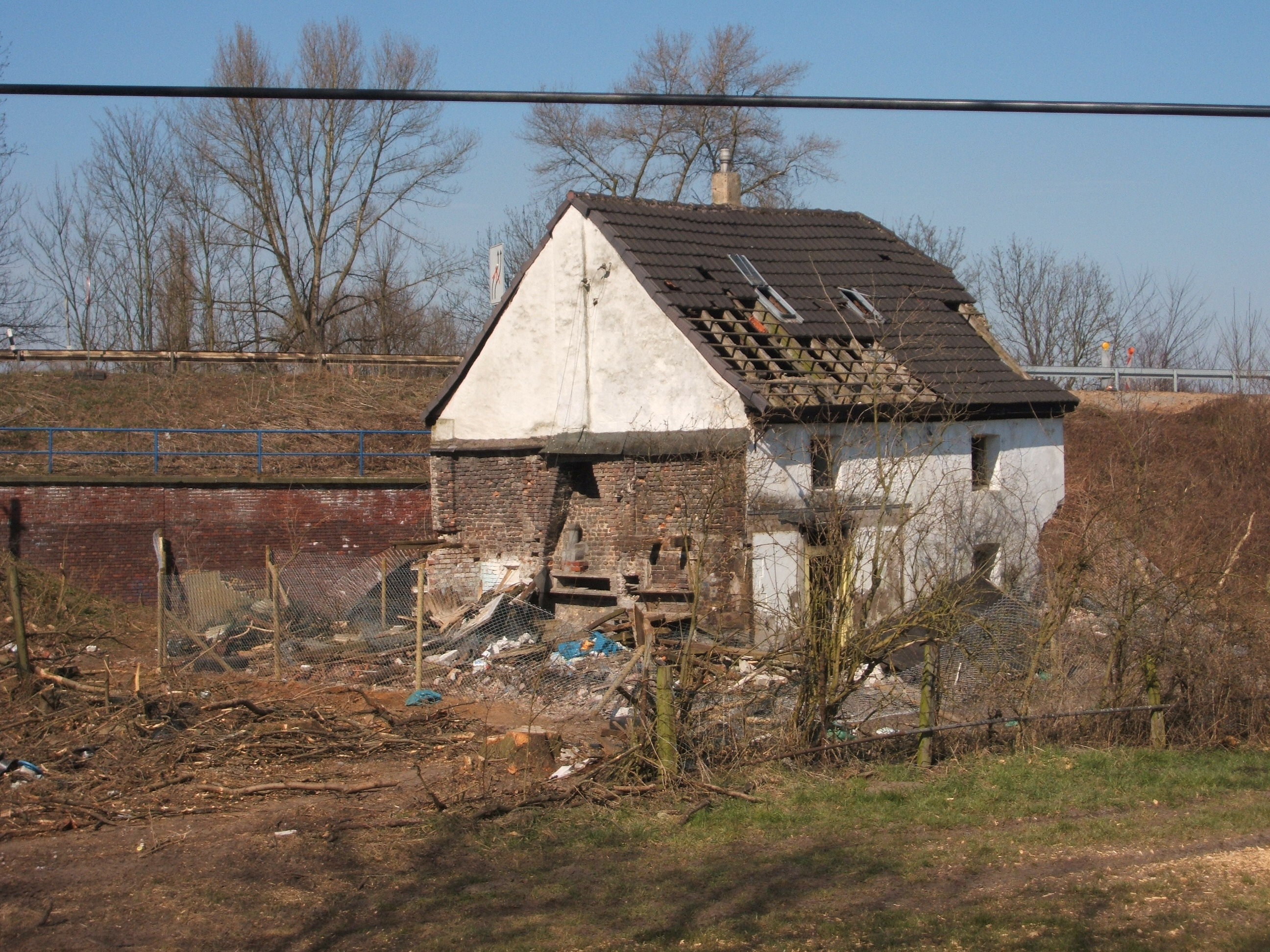 Oilmill in Düsseldorf-Angermund in April 2013